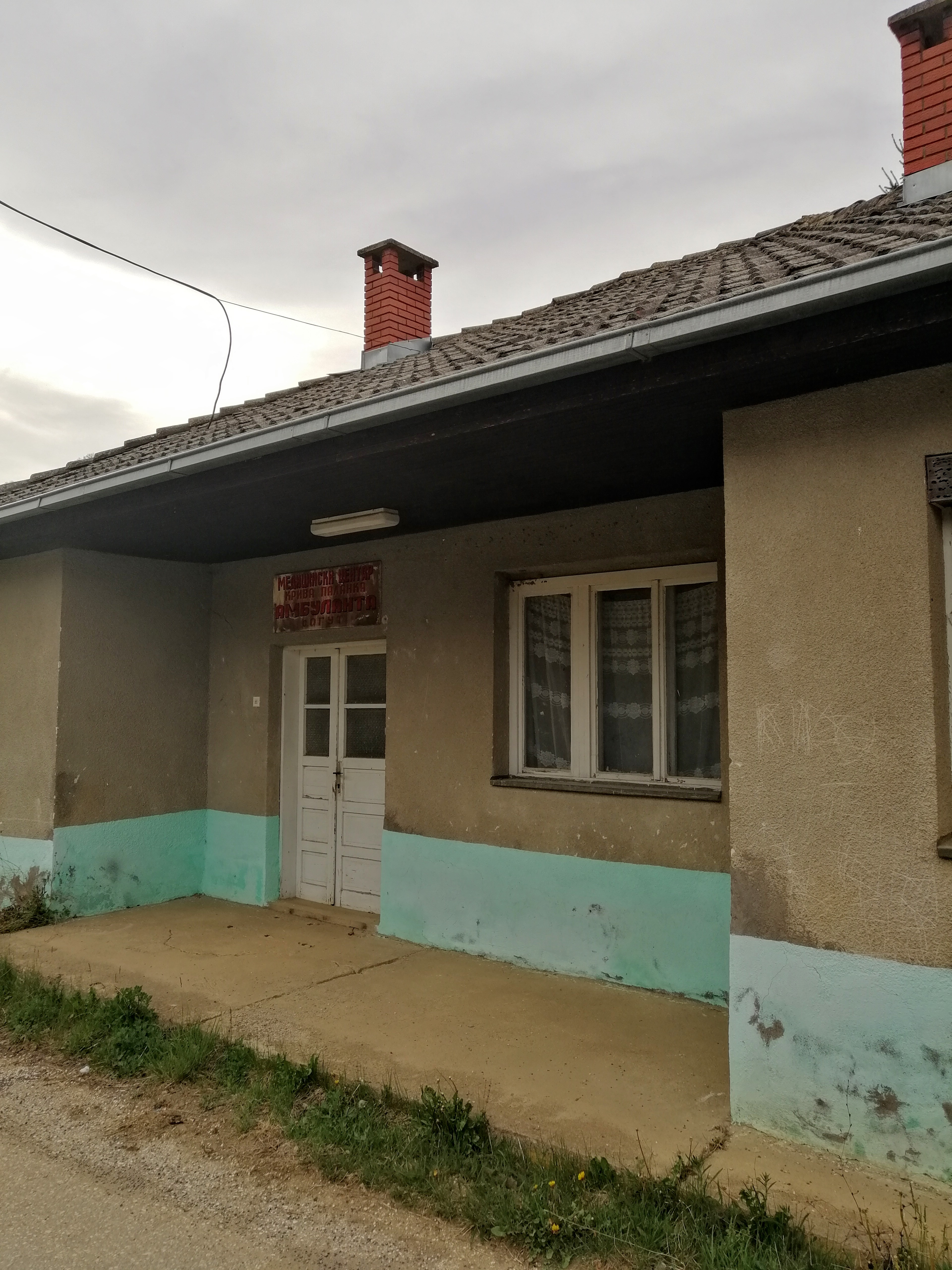 Ambulance in the village Ogut